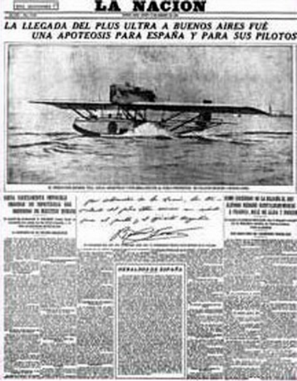 Cover of La Nación newspaper of Argentina, displaying the arriving of Spanish aeroplane "Plus Ultra" to Buenos Aires.